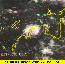 This picture shows Cyclone Tracy near landfall on Darwin, Australia in late December of 1974.